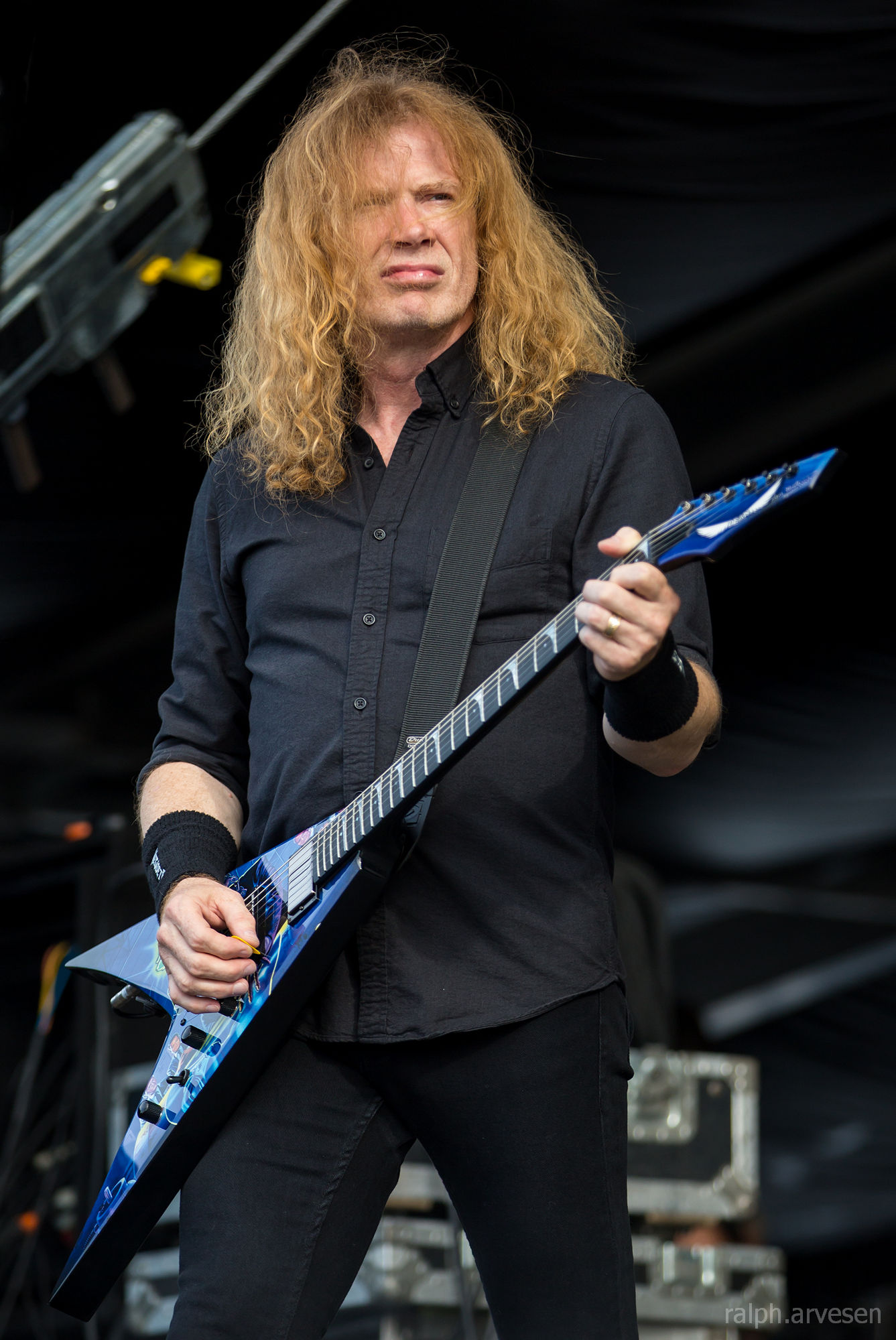 Megadeth performing during the River City Rockfest at the AT&T Center in San Antonio, Texas on May 29, 2016. Megadeth performing in San Antonio, Texas in May 2016